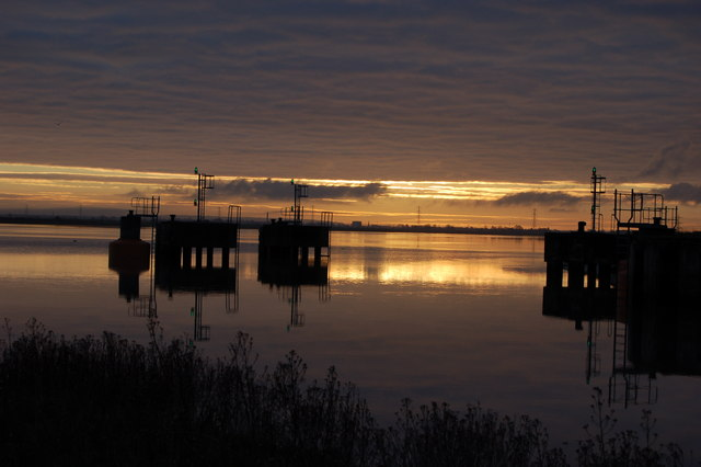 Combwich harbour at dawn picture taken by Matt Wilkes